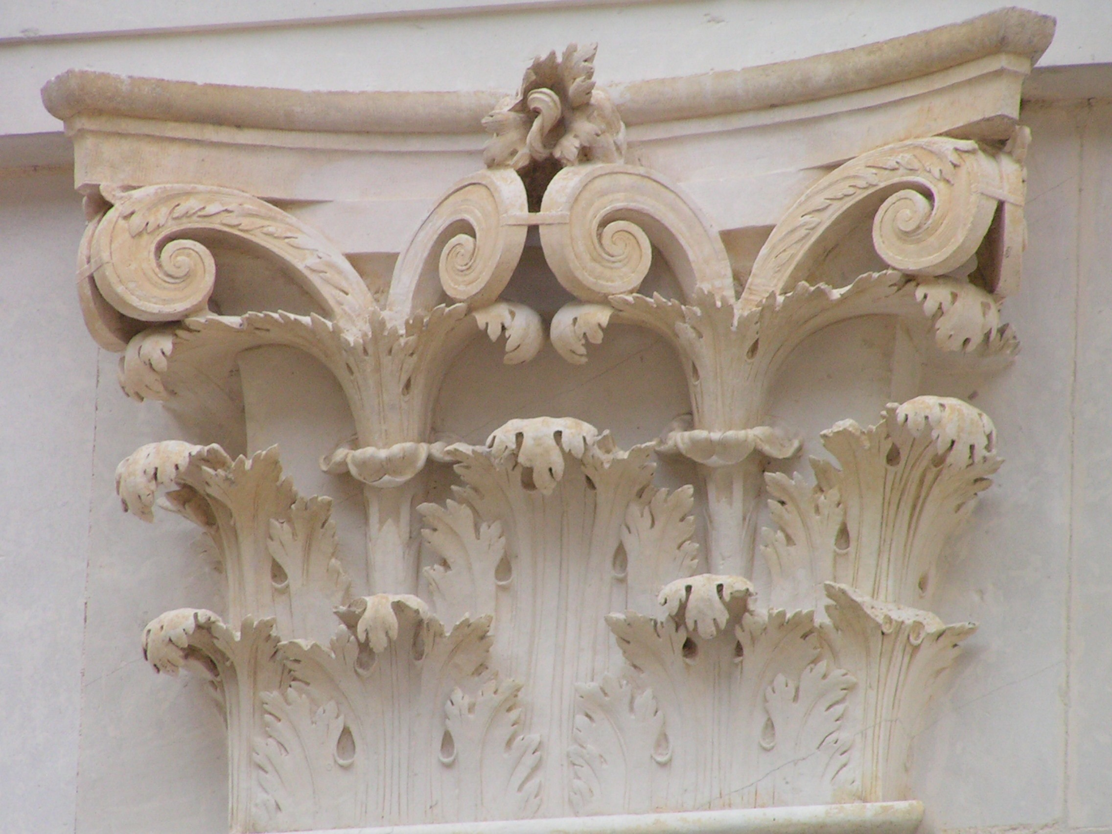 Château d'Ancy-le-Franc in Bourgogne, France